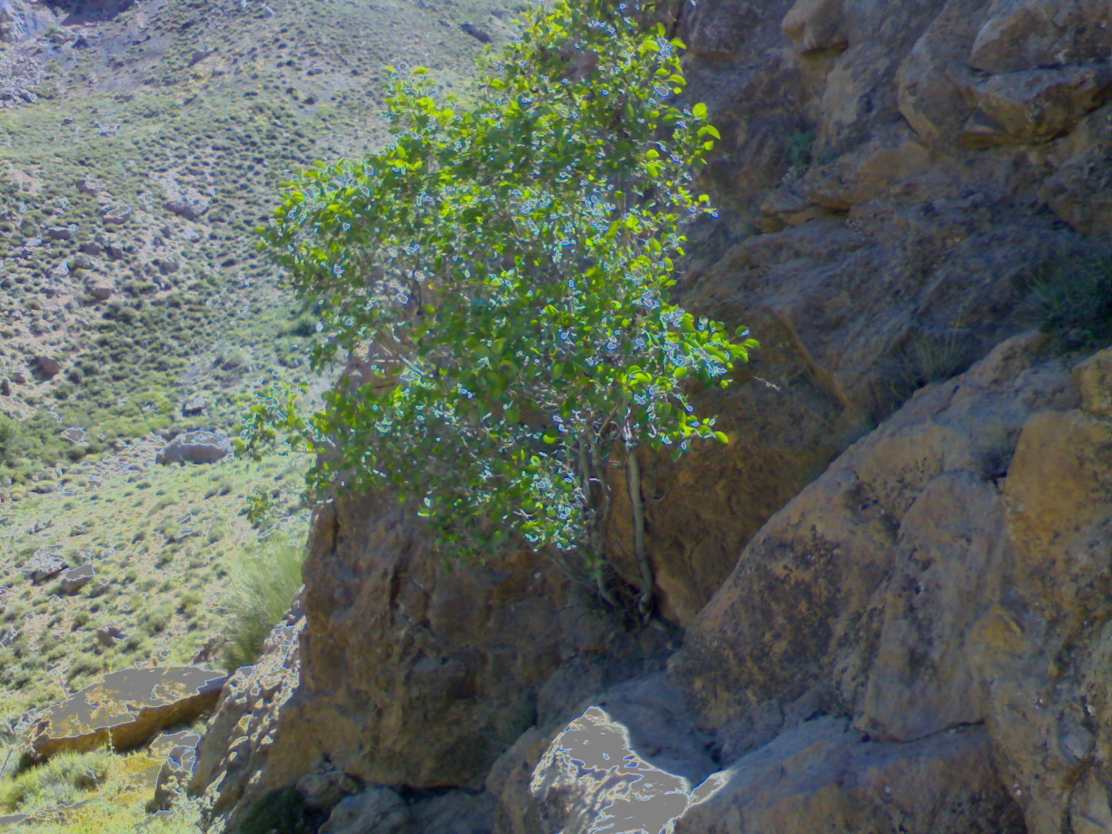 Wild mountain fig in Zibad area, Iran